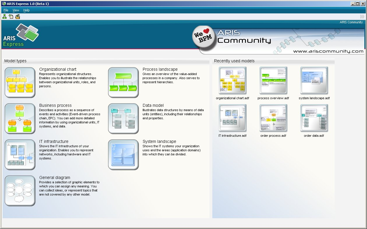 Screenshot ARIS Express start screen (English user interface version)